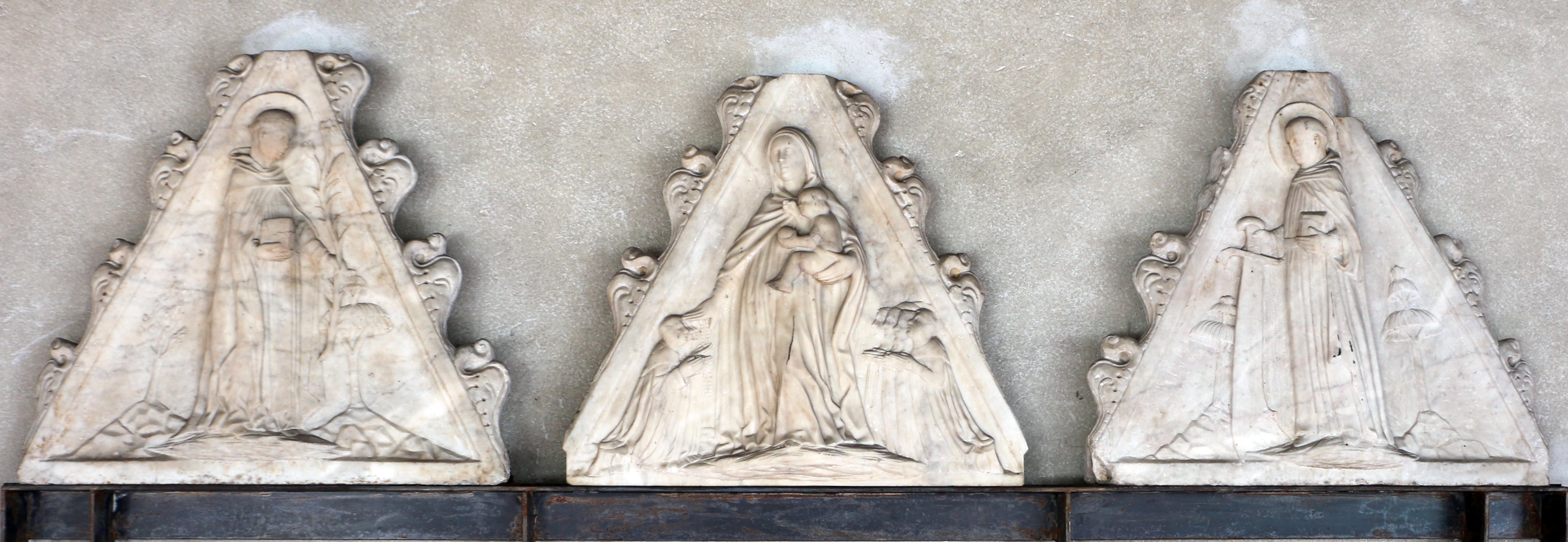 Santa Maria di Castello (Genoa) - Convent